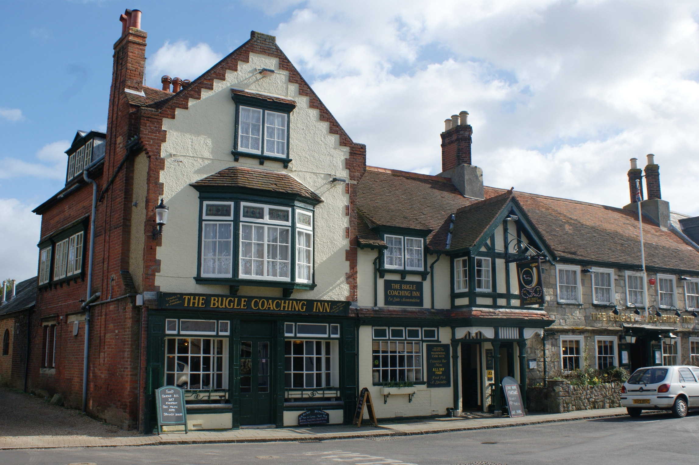 The Bugle Coaching Inn in Yarmouth on the Isle of Wight.